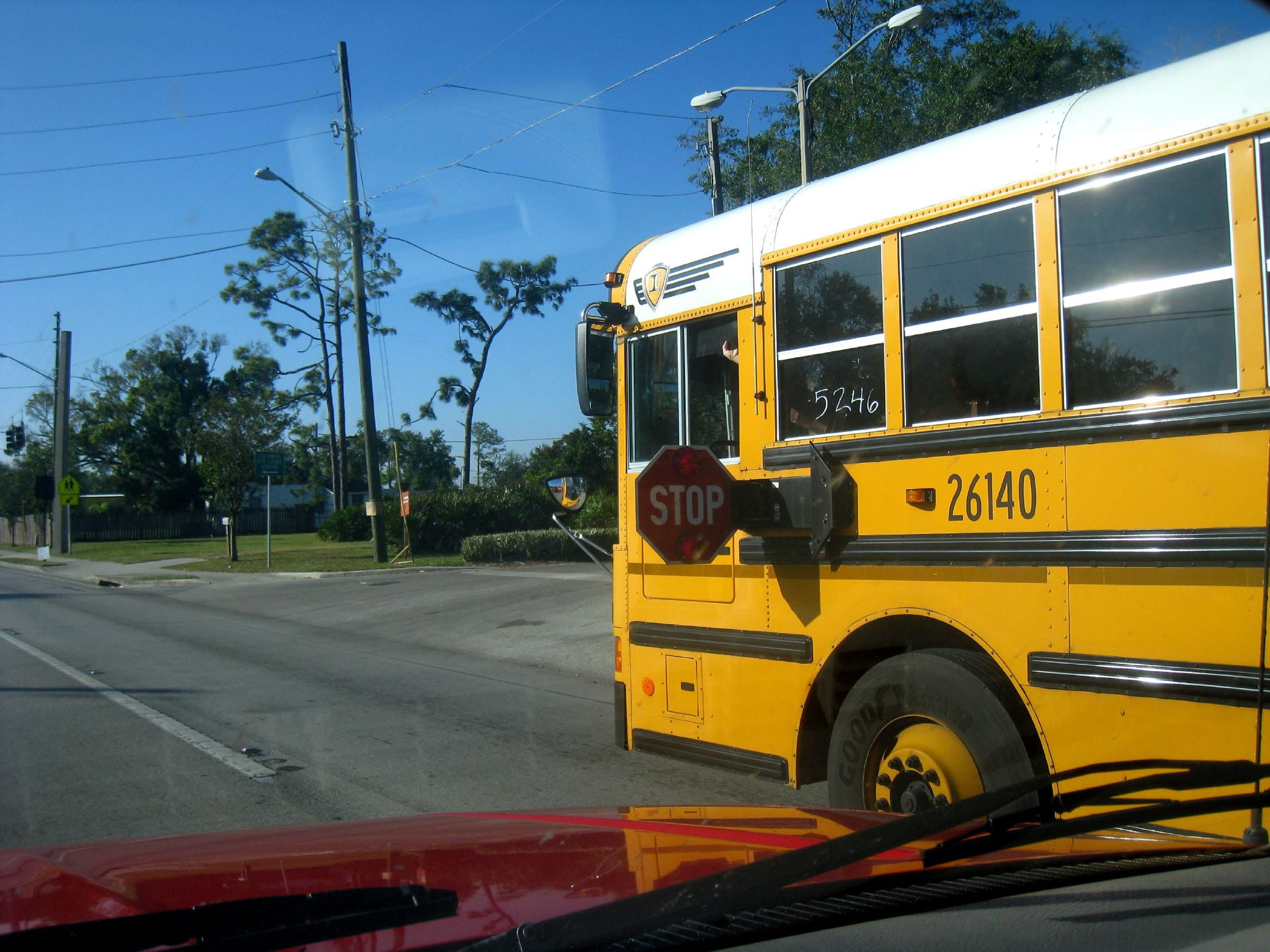 A photograph of a school bus with its stop arm in the deployed position. The bus is an IC Corporation IC RE; IC Corporation is a Navistar company.